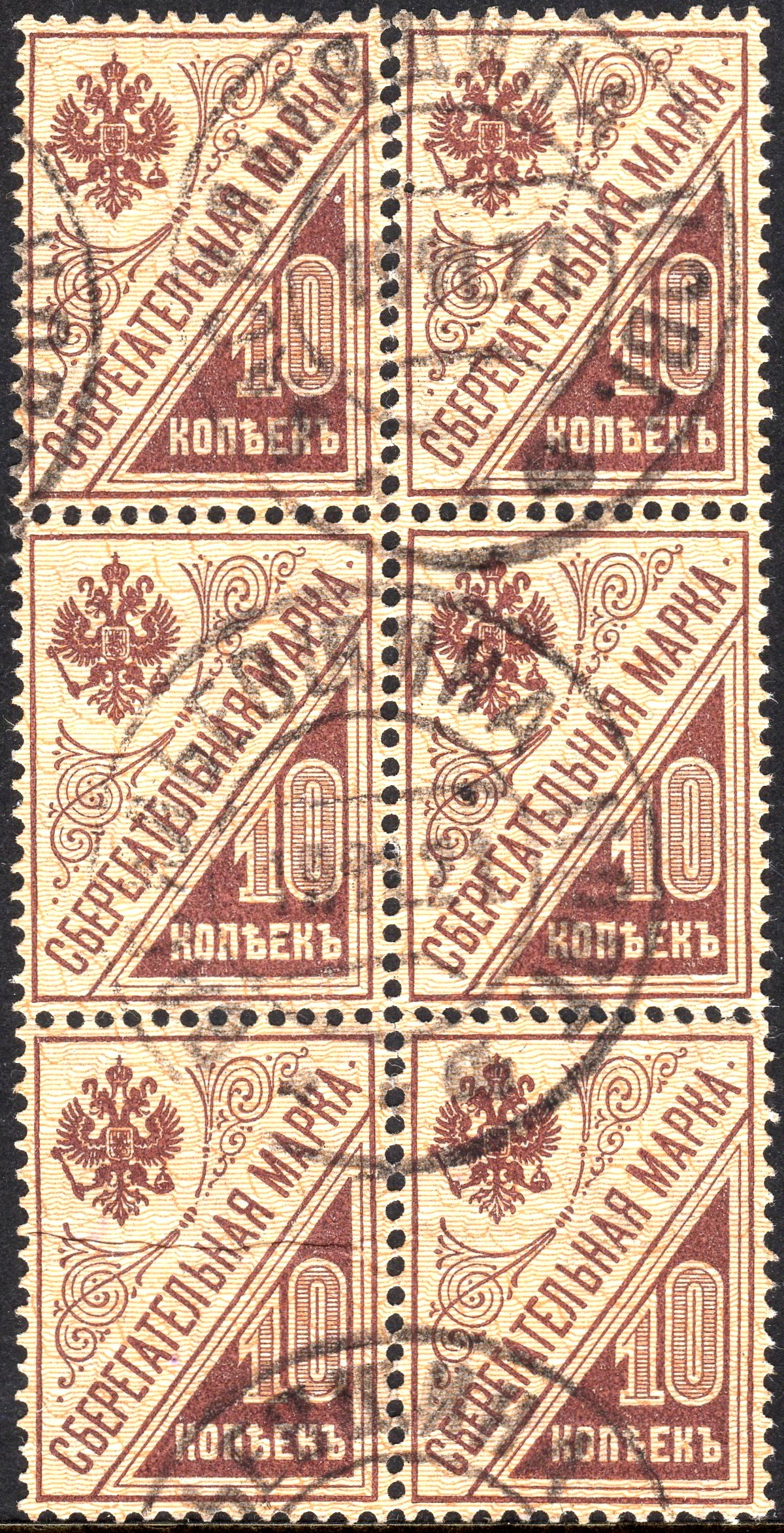 Russian postal savings stamps cancelled November 1921.